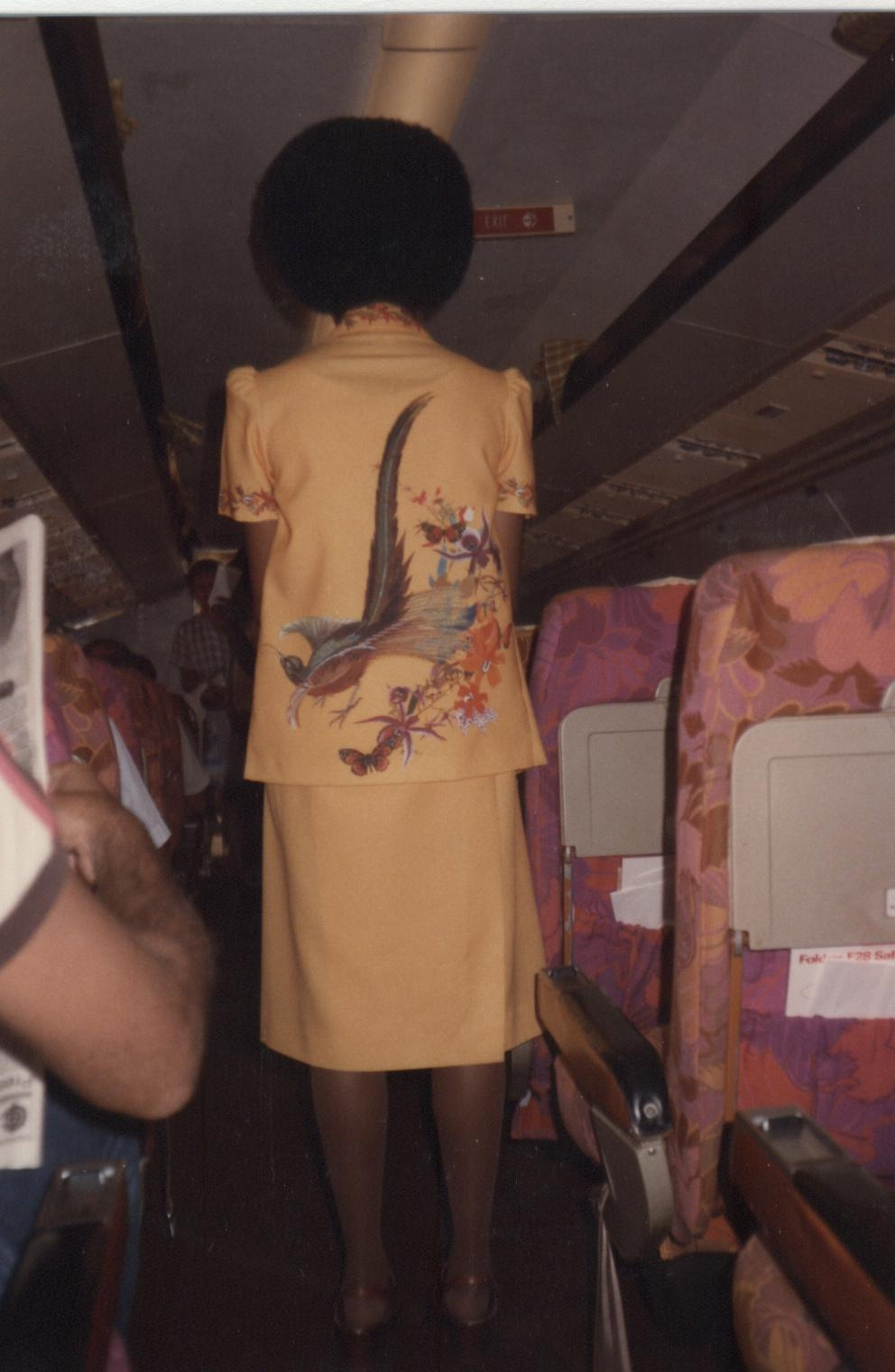 Picture taken in May 1984 of stewardess of Air Niugini during flight Cairns to Port-Moresby (PNG)